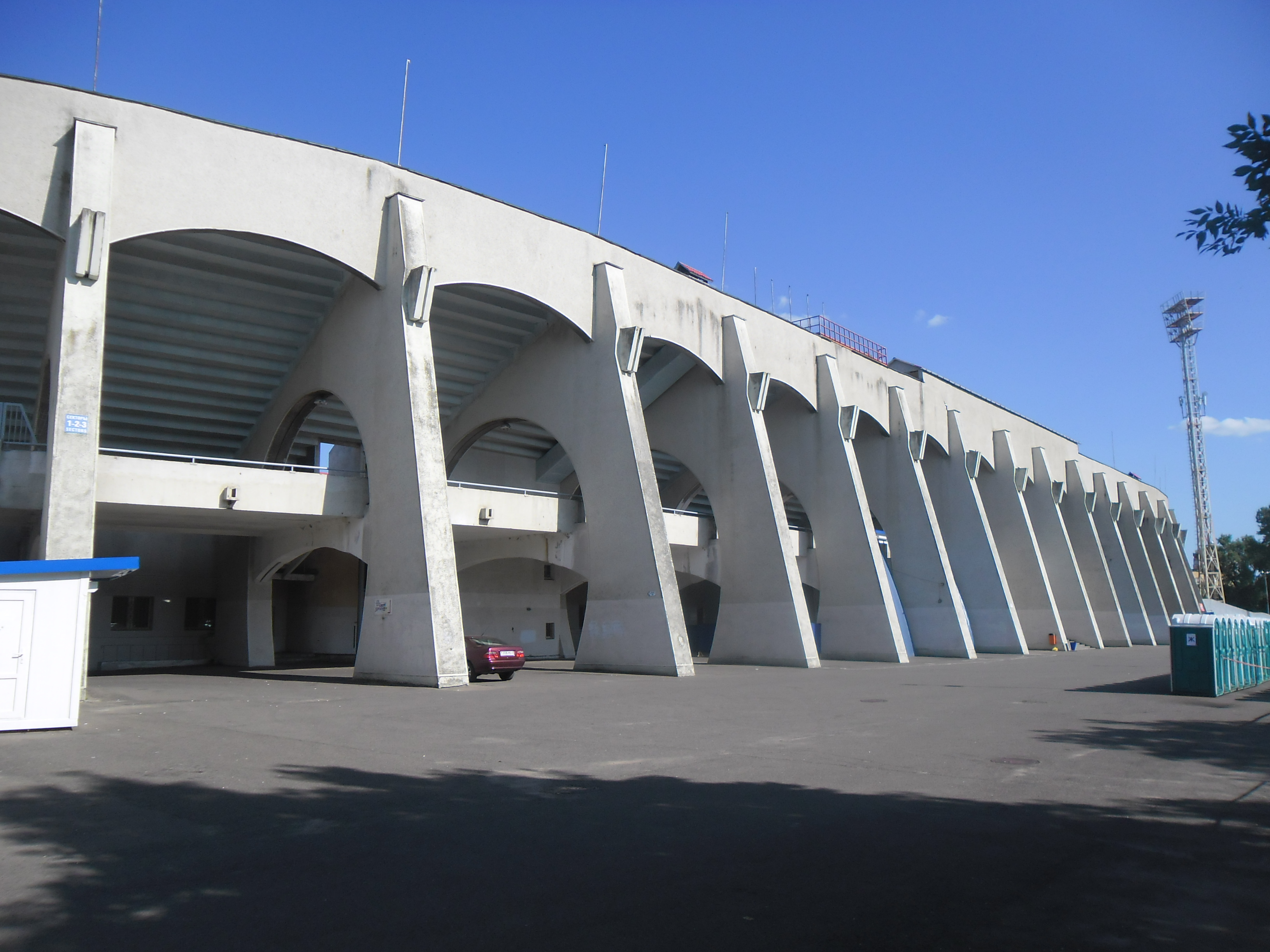 Traktar stadium in 2014